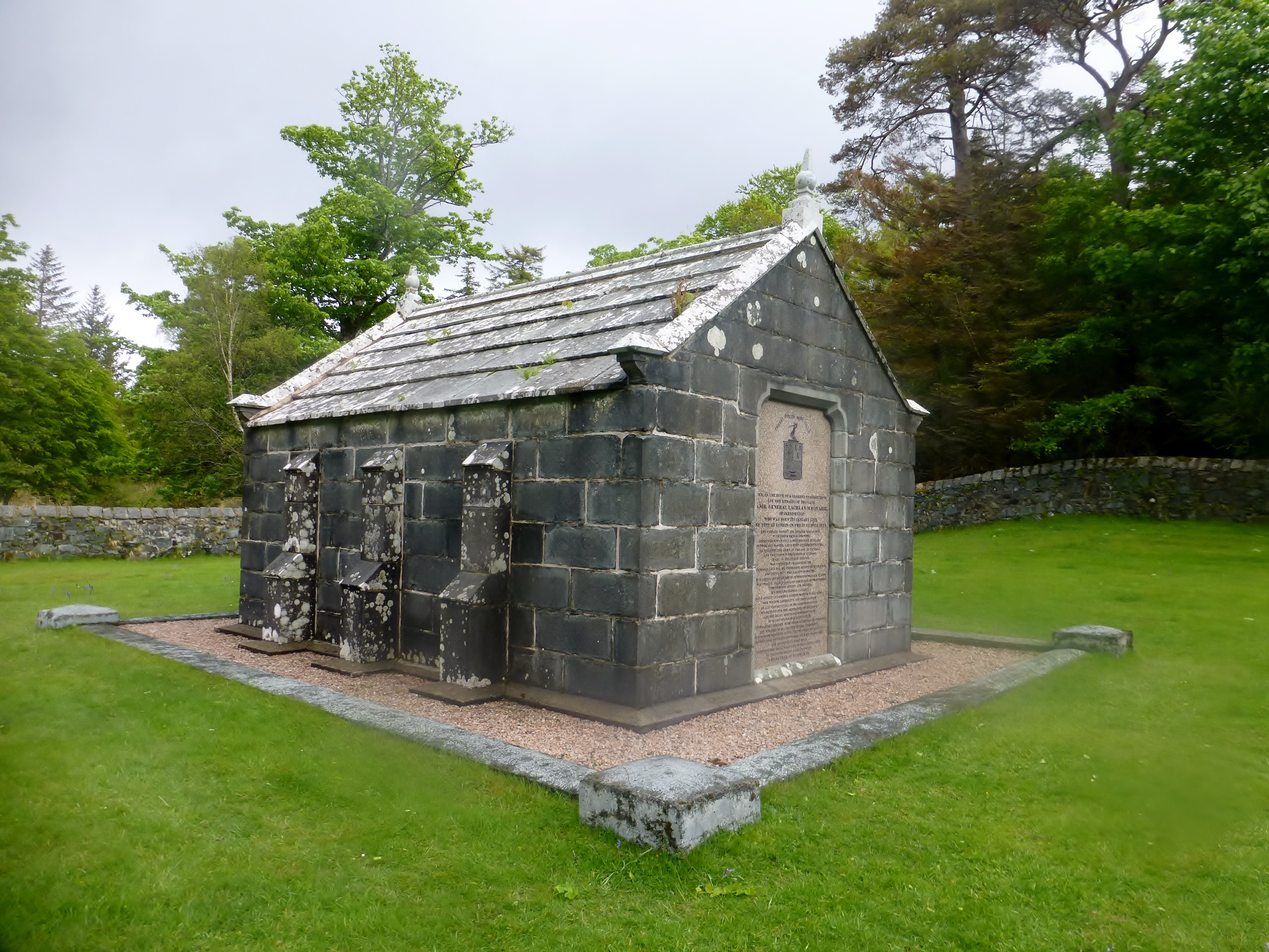 Macquarie Mausoleum Set in a grassed area surrounded by a circular stone wall with wrought iron gates, the Macquarie Mausoleum is a plain sandstone structure with two marble panels enclosing the entrance doorways. It holds the remains of Lachlan and Elizabeth Macquarie and their children, Lachlan – and Jane, who died in infancy. For many years the mausoleum was sadly neglected. But in 1948, Lady Yarborough, the owner of a nearby estate, gifted the mausoleum site to the people of New South Wales. Today, the tomb is preserved and protected by both The National Trust of Scotland and The National Trust of Australia. In 1851 the Drummond family, a socially prominent family, built a final mausoleum on the site.[1]